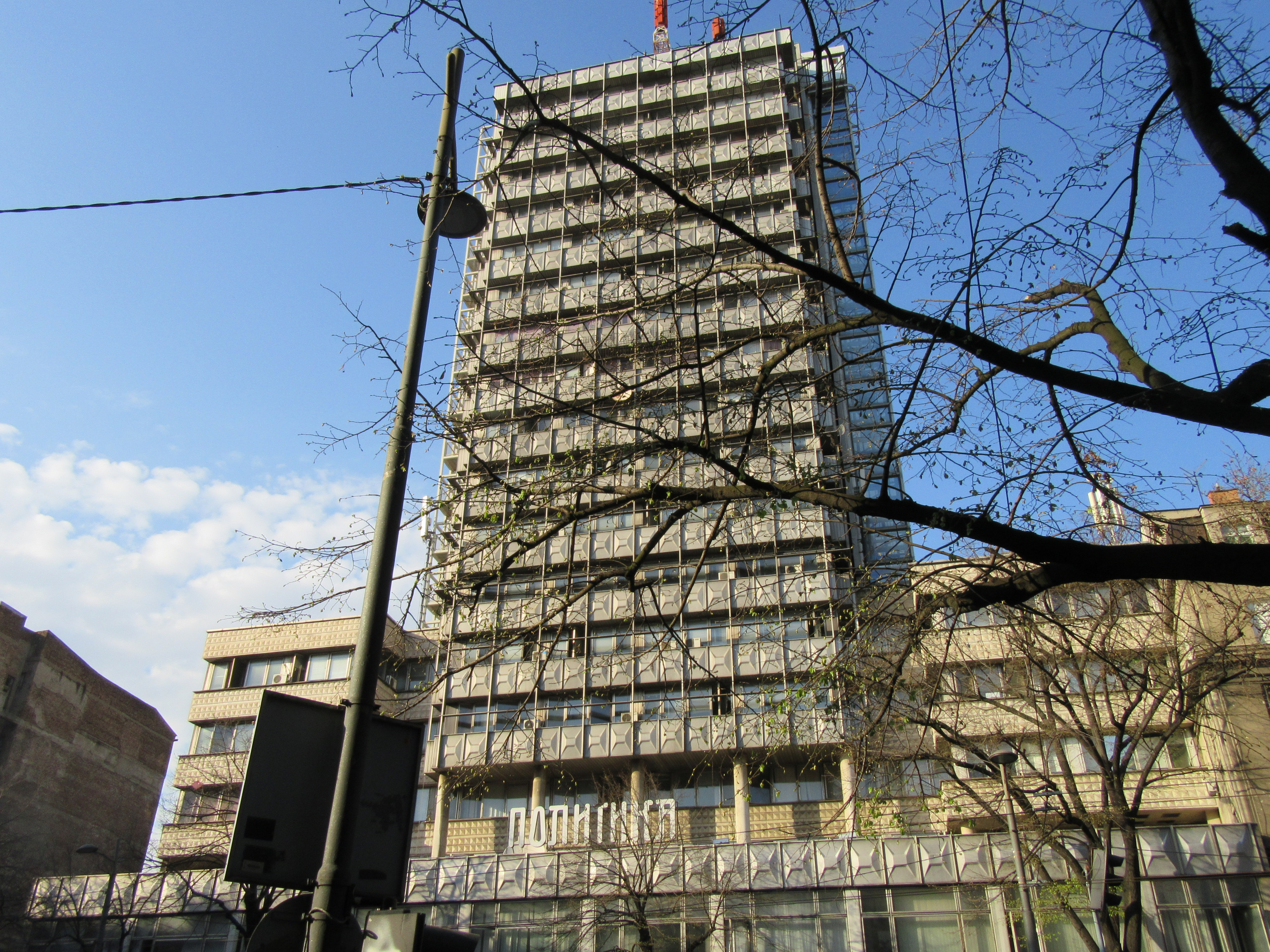 Palace Politics, Makedonska street, Belgrade, Serbia, 2019. Srpski (latinica): Palata Politika, Makedonska ulica, Beograd, Srbija, 2019.